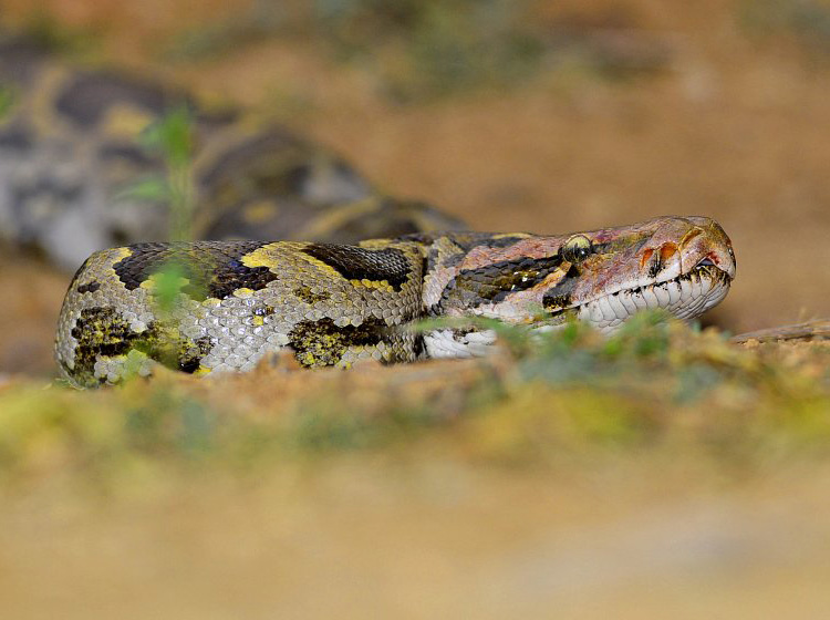 Indian Rock Python, near Nagarhole National Park, India